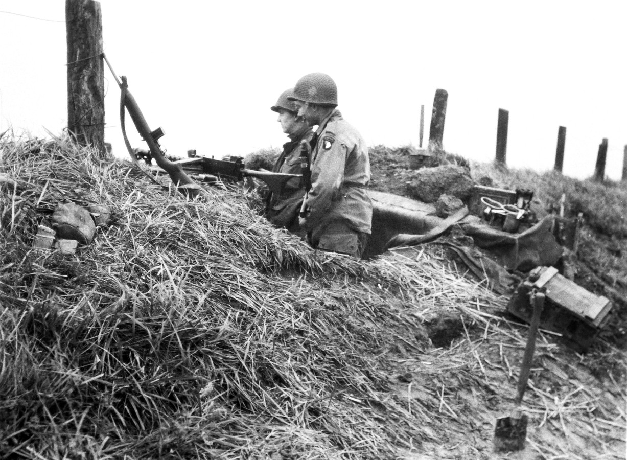 Paratroopers of the 2nd/506th (101st Airborne Division), near Randwijk, Holland. October 1944.